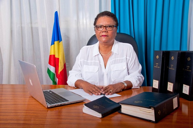 Alexcia Amesbury, Seychellois lawyer and first female candidate for the 2015 presidential election (SPSJD).